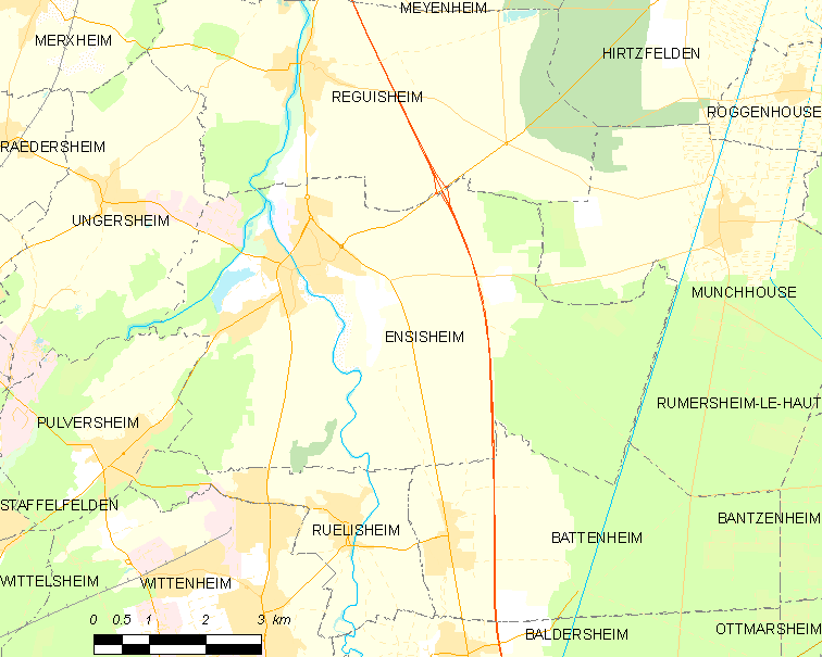 Map of French municipality